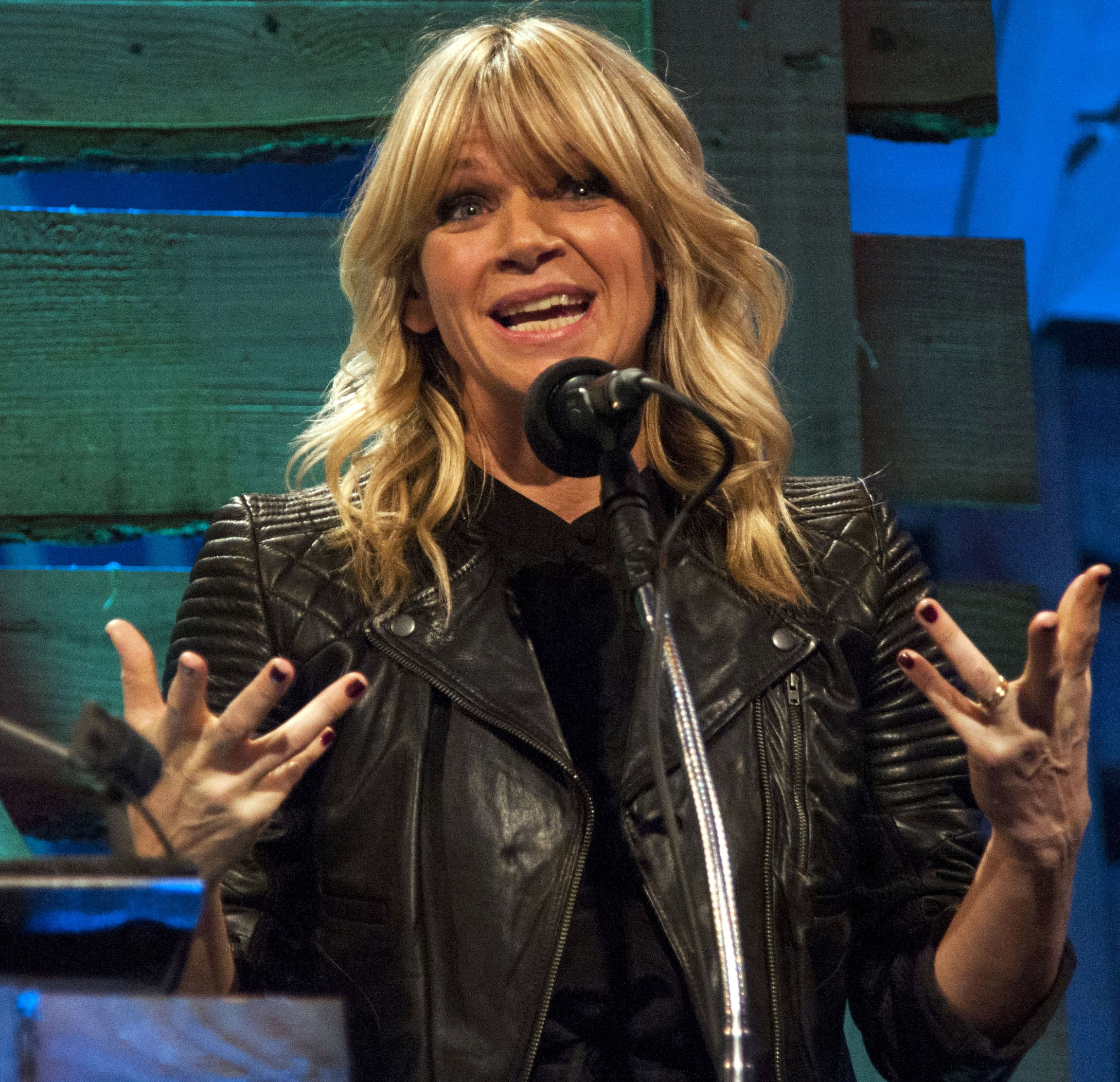 An evening at The Royal Albert Hall as official photographer at the 2014 BBC Radio 2 Folk Awards.